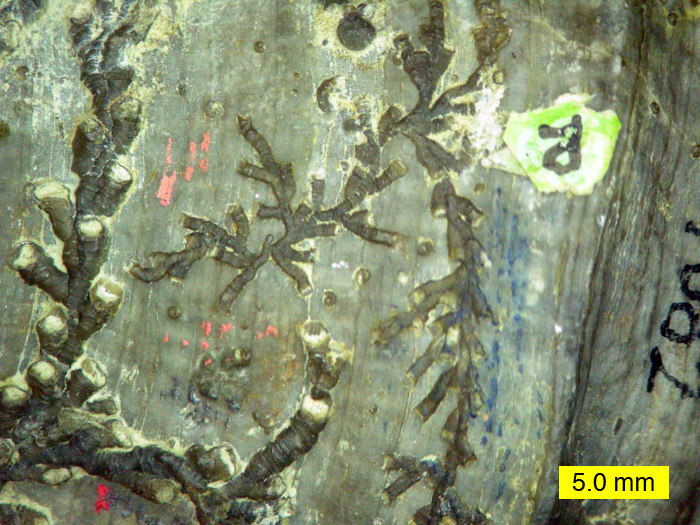 Three hederelloid species on a Devonian rugose coral.